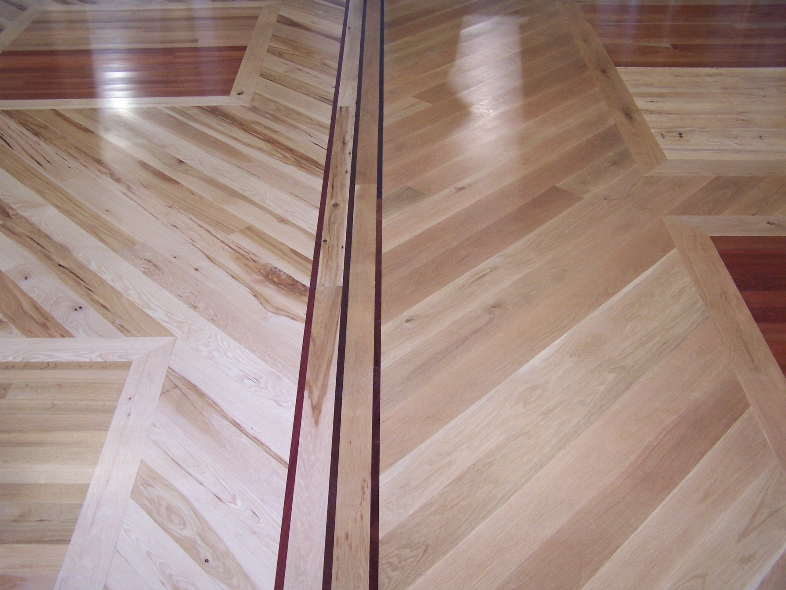 Showroom